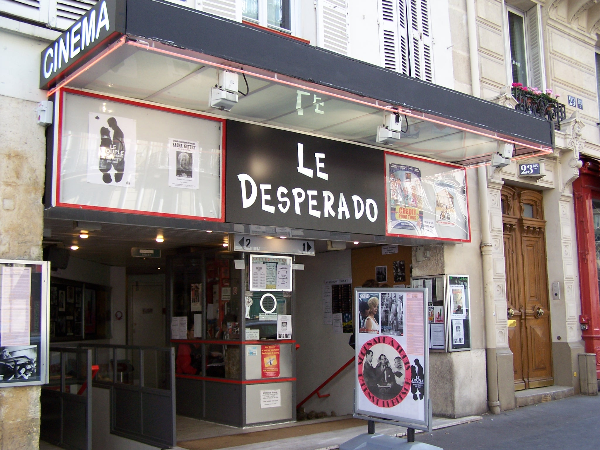 View of the movie theater Le Desperado, ex Action École, at rue des Écoles in Paris